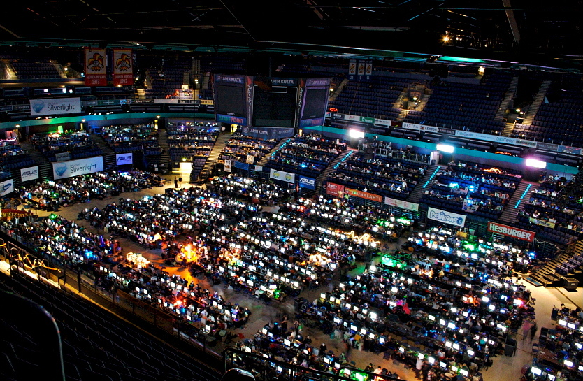 Assembly demoparty 2008, picture of arena stage